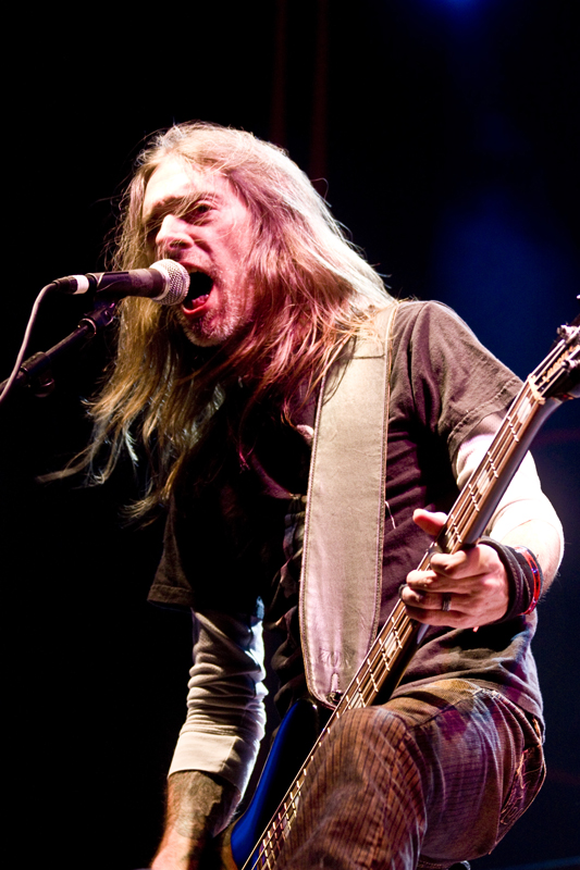 Rex Brown performing live with Down at Resurrection Fest 2010, Viveiro, Lugo.